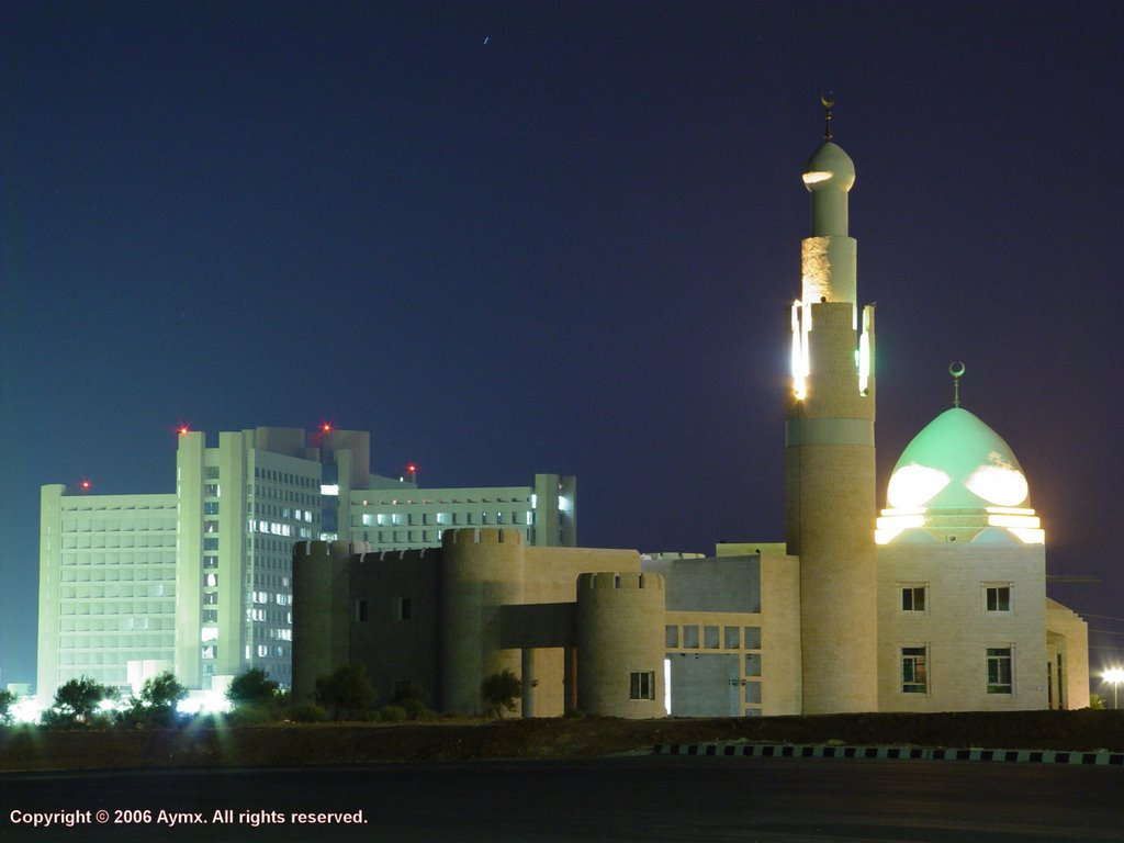 A picture of King Abdullah University Hospital (KAUH) which is the hospital of Jordan University of Science and Technology (JUST). Also you can see the mosque of the university. The picture was taken by me, Aymx